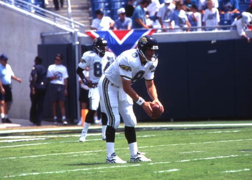 Backup QB #8 Mark Brunell warming up with the team for the Jacksonville Jaguars inaugural game against the Houston Oilers. Photo deemed in public domain by James Gaines.